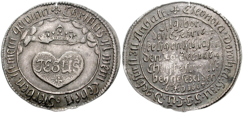 GERMANY, Sachsen-Neu-Weimar. Johann Ernst. 1662-1683. AR Groschen (25mm, 1.87 g, 12h). On the death of his mother, Eleonora Dorothea von Anhalt. Dated 1665. Heart inscribed JESUS being crowned by two hands from the clouds above / Dedicatory script in seven lines. Koppe 379, Merseburger 3912. Good VF, lightly toned.